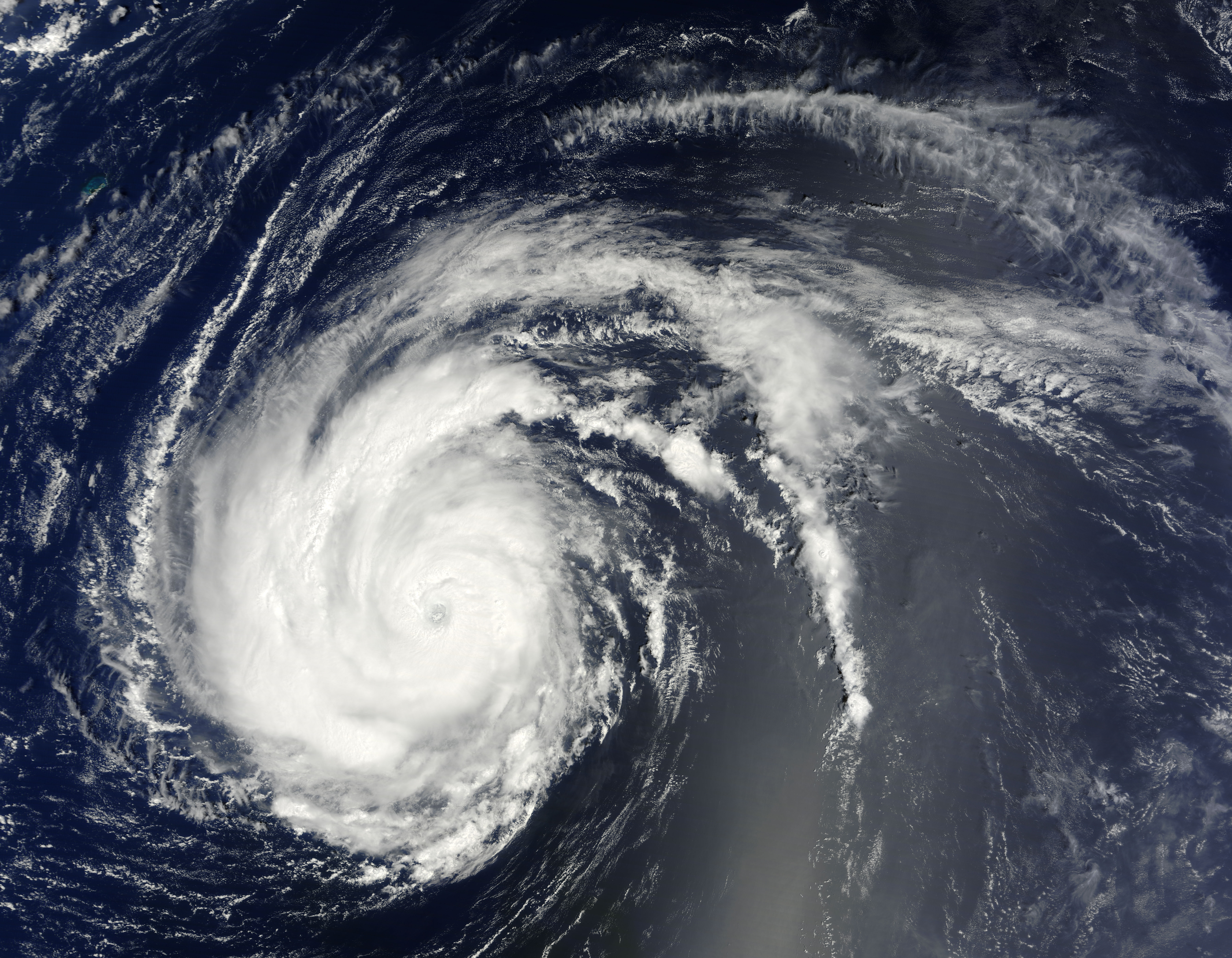 Hurricane Danielle near peak intensity.